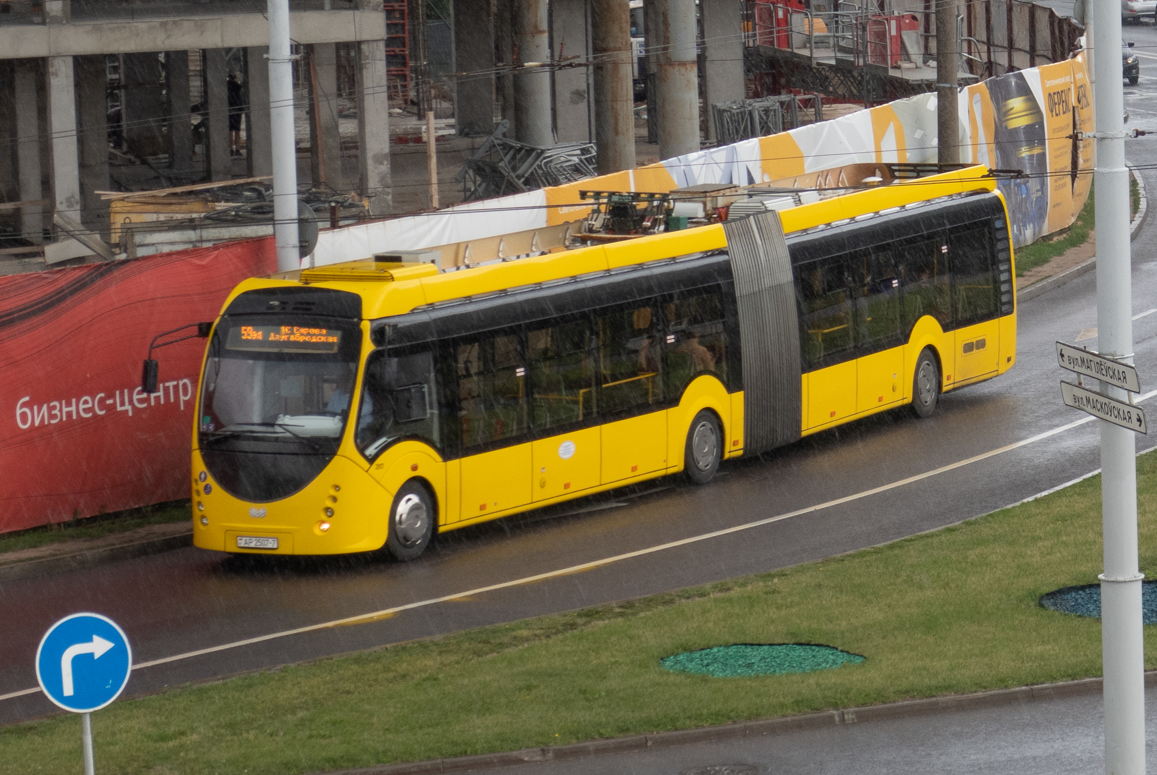 AKSM E433 electrobus made by Belkommunmash in Minsk, Belarus